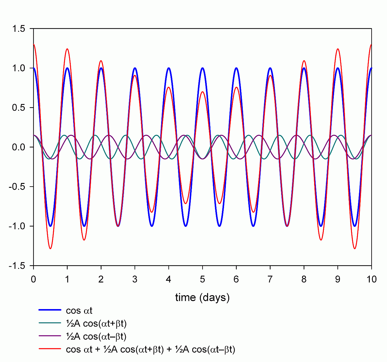 Example of the sum of a cosine with an angular velocity of 360° per day and an amplitude 1, a cosine with an angular velocity of 360+36° per day, amplitude ½A, and a cosine with an angular velocity of 360–36° per day, amplitude ½A. The resulting curve is exactly the same as the one that would be the result of the first cosine, multiplied by a factor 1+Acos(36°). This is important when one wants to understand the role of partial tides in tidal theory.